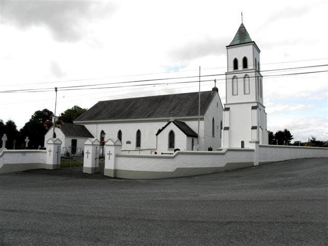 St Patrick's RC Church, Aughawillan